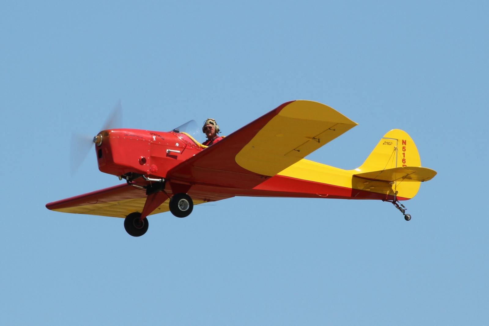 Warner Aerocraft Spacewalker 1 (N516RM)